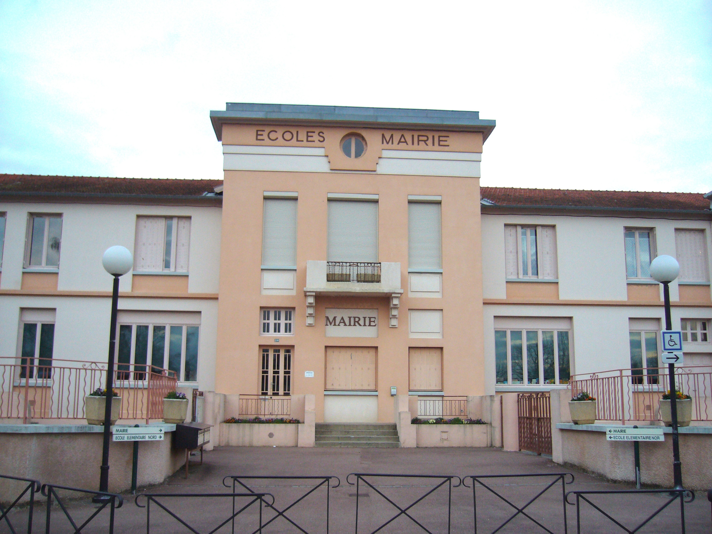 Mairie d'Estrablin, Isère, France (20 janvier 2007) - Photo D.Etienne Estrablin's city office, France (January 20, 2007) - Photo by D.Etienne